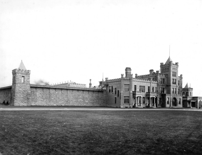 Utah State Penitentiary (now called Sugar House Prison), operated at Sugar House, Salt Lake City, Utah from 1855 to 1951.